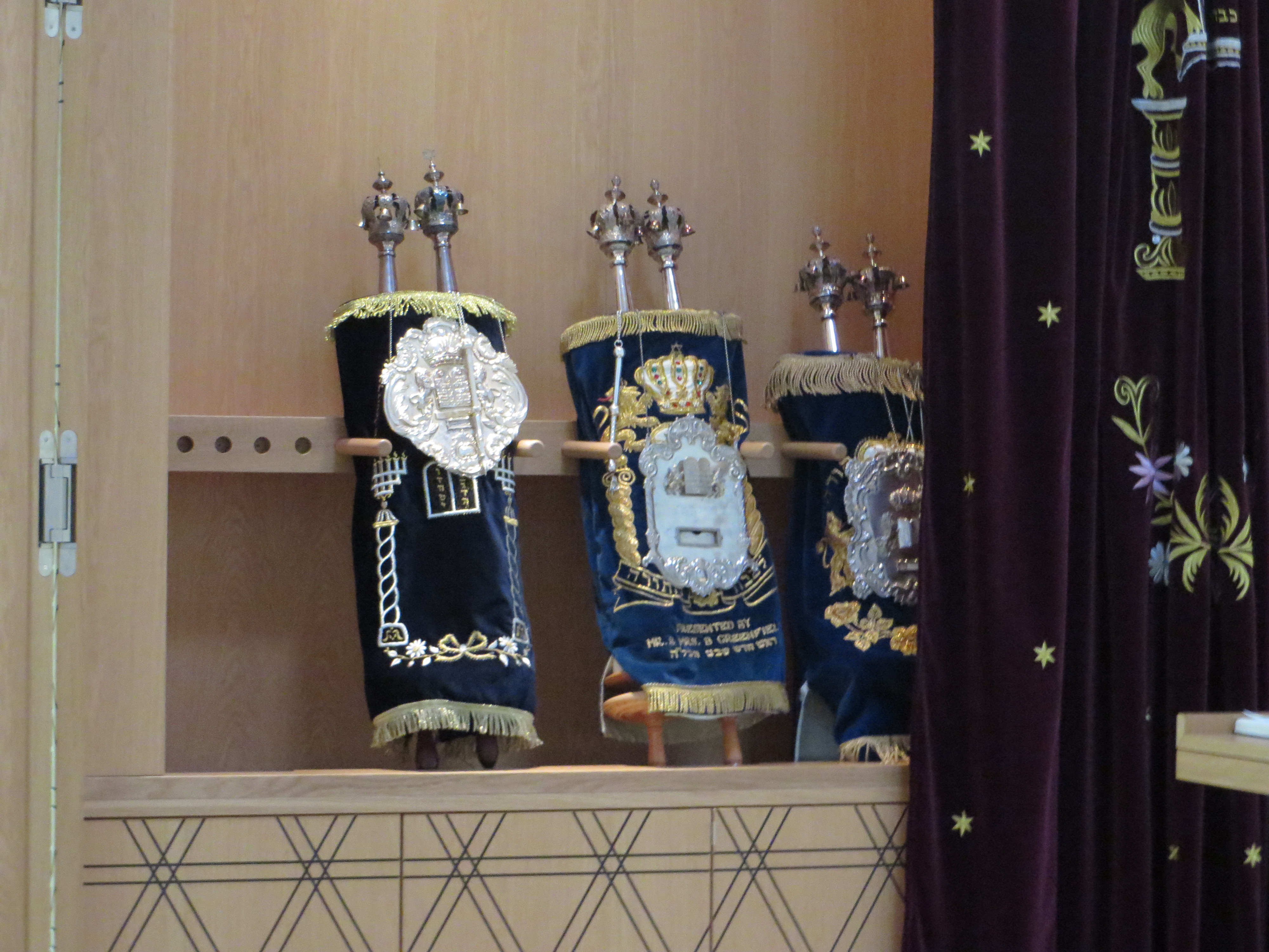 New synagogue Bochum: Torah scrolls in Torah arkEsperanto: Nova sinagogo Bochum: Toravolvolibroj en Torasankejo